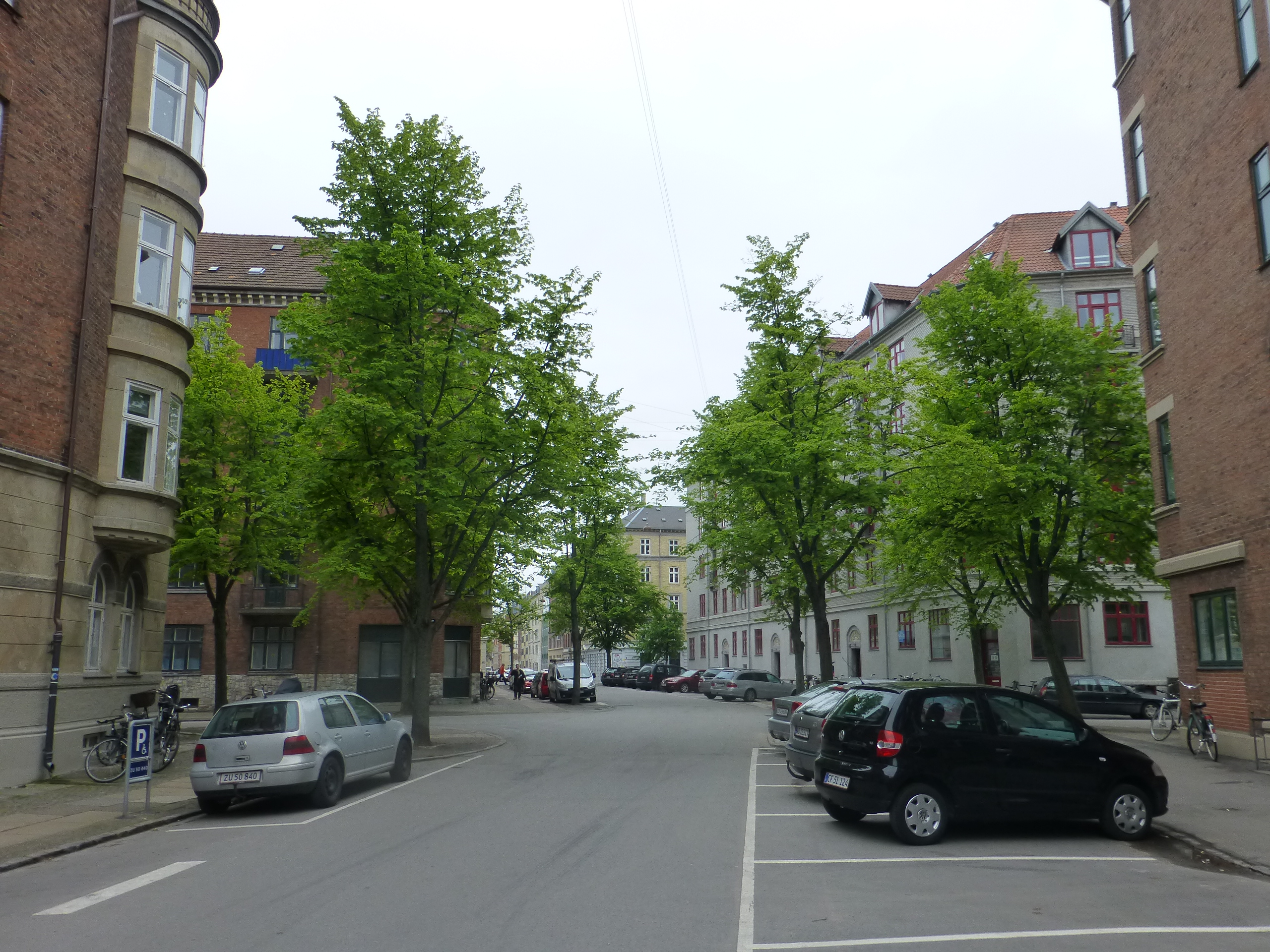 The street Silkeborggade at Korsørgade in Østerbro in Copenhagen.